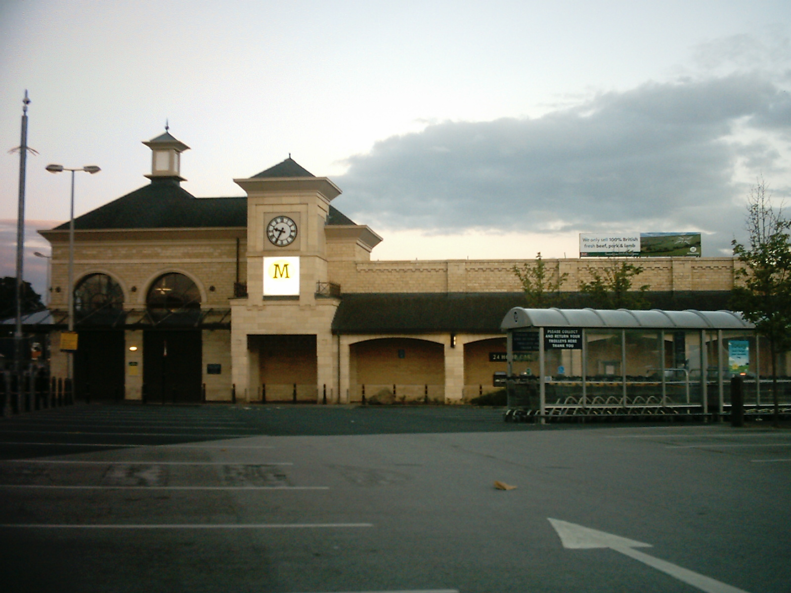 Morrisons at Wetherby, West Yorkshire